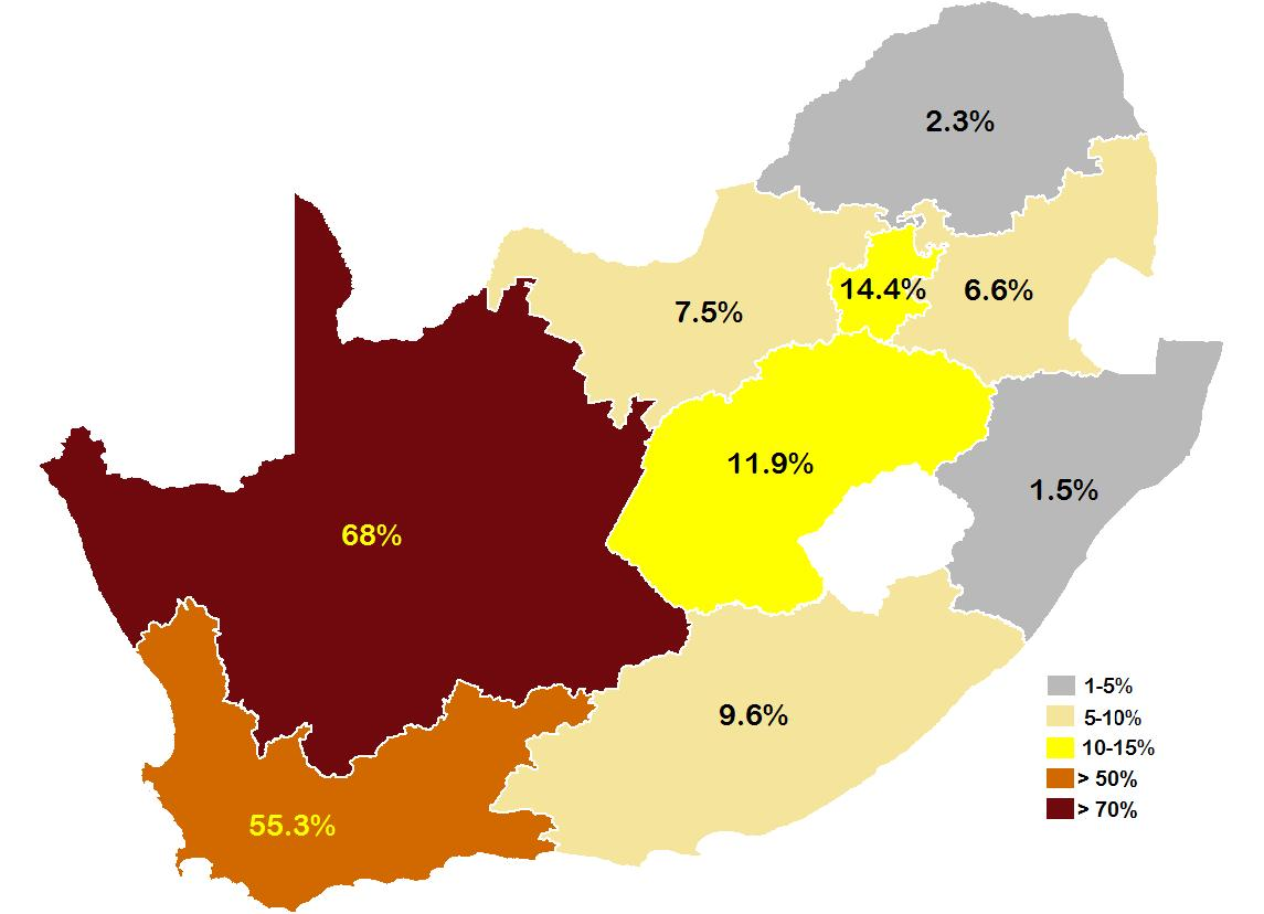 Map of Afrikaans speakers by province in South Africa